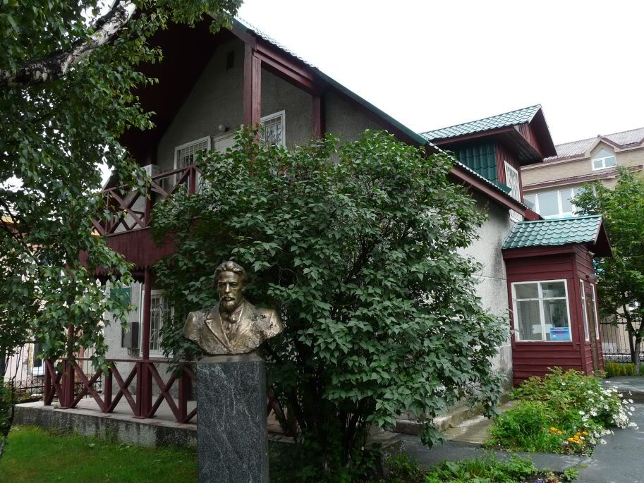 The old building (till 2013) of the museum of Anton Chekhov's book "Sakhalin Island" in Yuzhno-Sakhalinsk